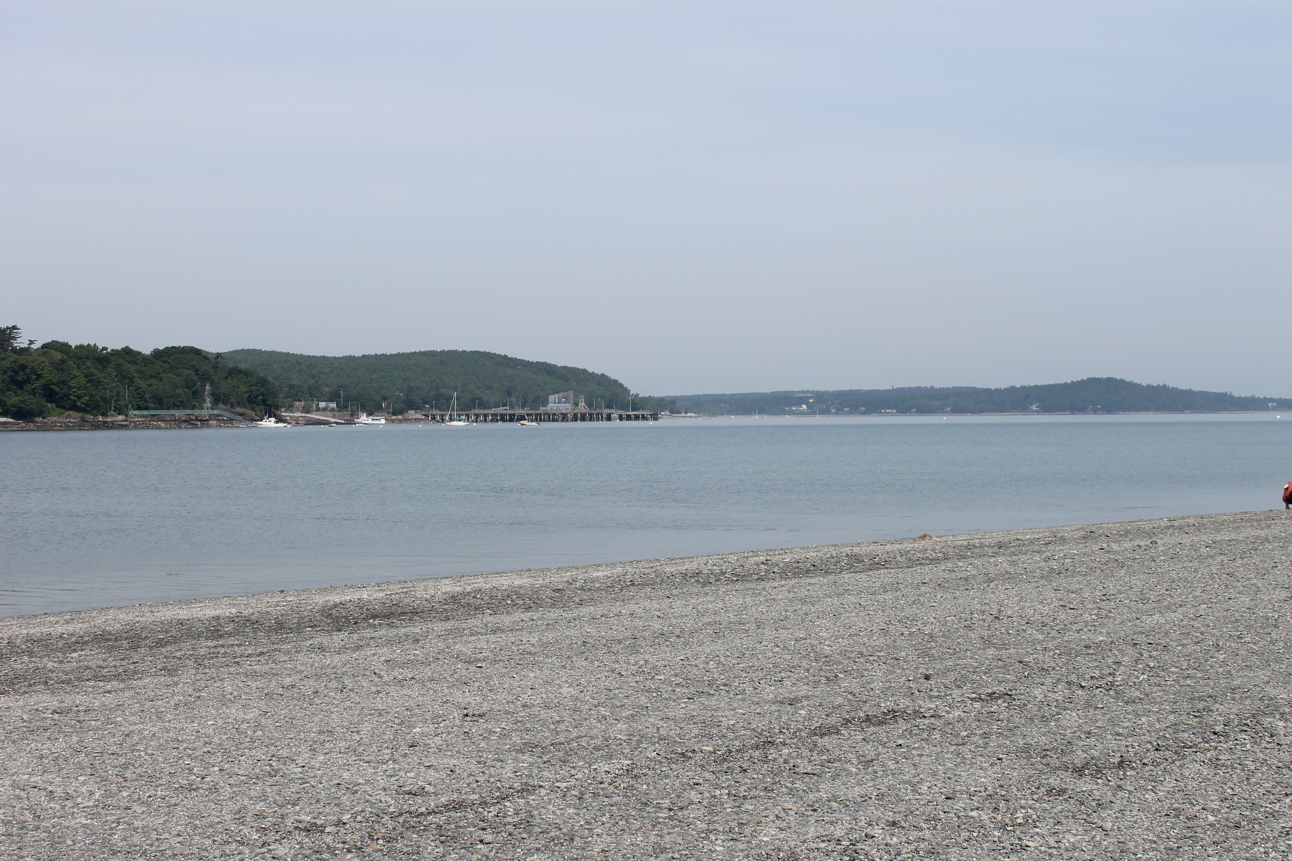 I took photo of Atlantic coast at low tide at Bar Harbor, ME, with a Canon camera.